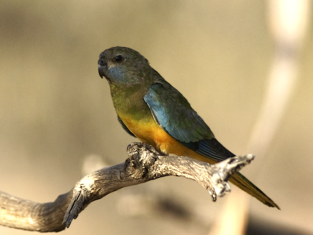 An immature female Scarlet-chested Parrot at Gluepot Reserve, South Australia, Australia. Gluepot Reserve, which is a 54,000 hectare property owned by Birds Australia in Mallee country north of Waikerie, formerly a cattle station (read more about Gluepot Reserve). One of the reasons Birds Australia bought this property was to protect this rare species. It is a bird of the arid interior of Australia, and though deemed of Least Concern it is thinly spread and rarely encountered. We were fortunate enough to find a pair of immature birds when they came in to drink at a watering point (which has a bird hide next to it), with a flock of about 70 Mulga Parrots.